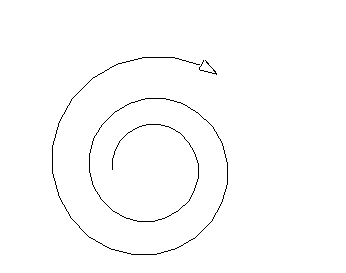 Using UCBLogo draw spiral on FreeBSD 6.1